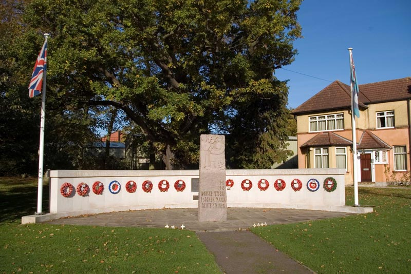 North Weald Memorial. This is the memorial to all those who served on North Weald Airfield throughout its service life especially those killed either by enemy action or accident in peacetime or in war. It stands at the old main gate to the airfield. The obelisk in the centre is the 268909 Norwegian Memorial over lost pilots designed by Roar Bjorg. North Weald opened in 1916 for home defence against Zeppelin raids. It was developed in then 1920s and '30s. It became a sector station of 11 Group. A Pilot from North Weald became the first RAF casualty of WW2 when a Hurricane Squadron from here was set upon by Spitfires from Hornchurch! North Weald was attacked many times during WW2 the memorial was erected in September 2000 on the 60th anniversary of the heaviest raid. The building in the background is Ad Astra House the old gate house and now 250662